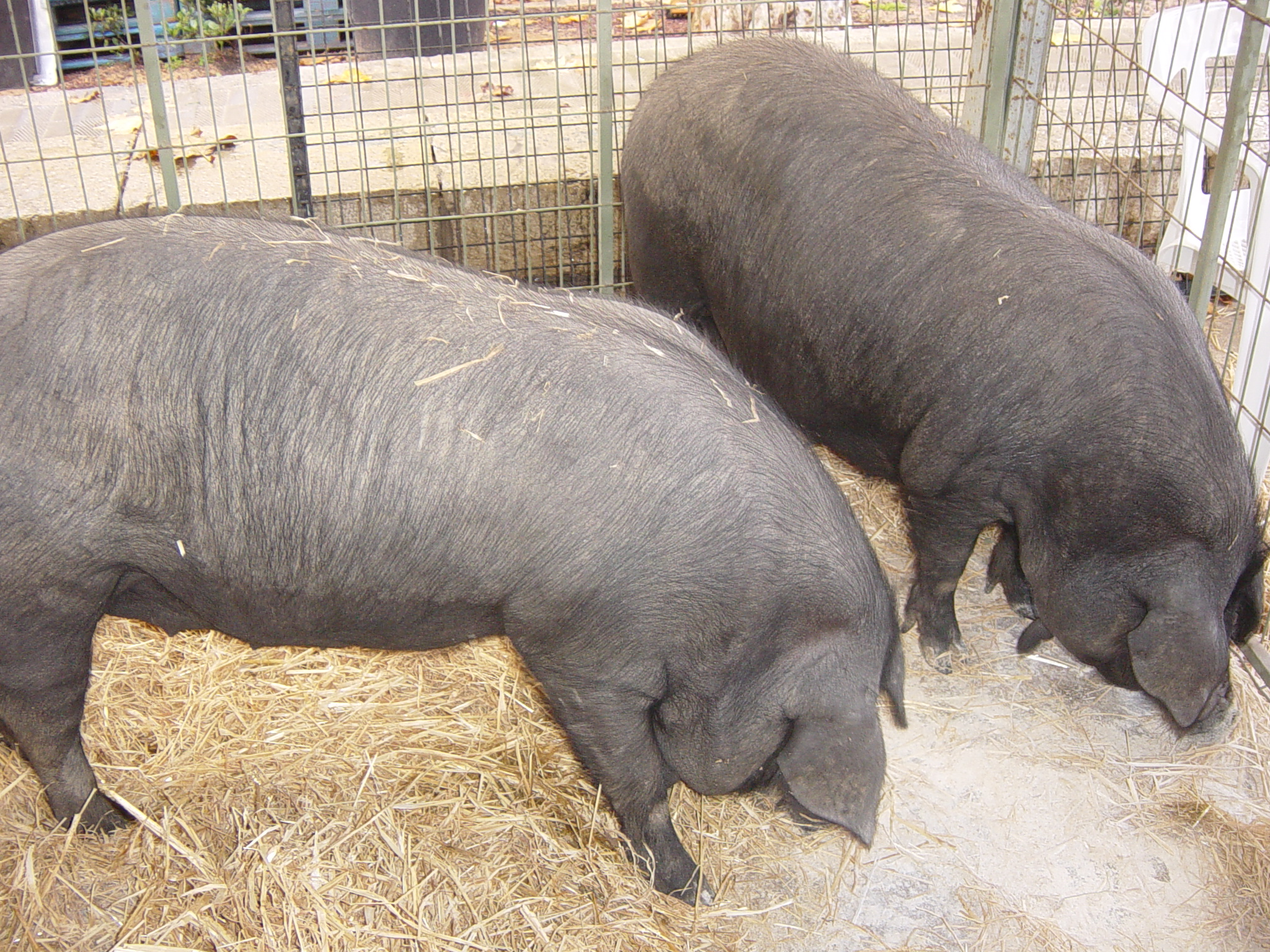 Pair of black pigs at the Dijous Bo fair, Inca, Mallorca